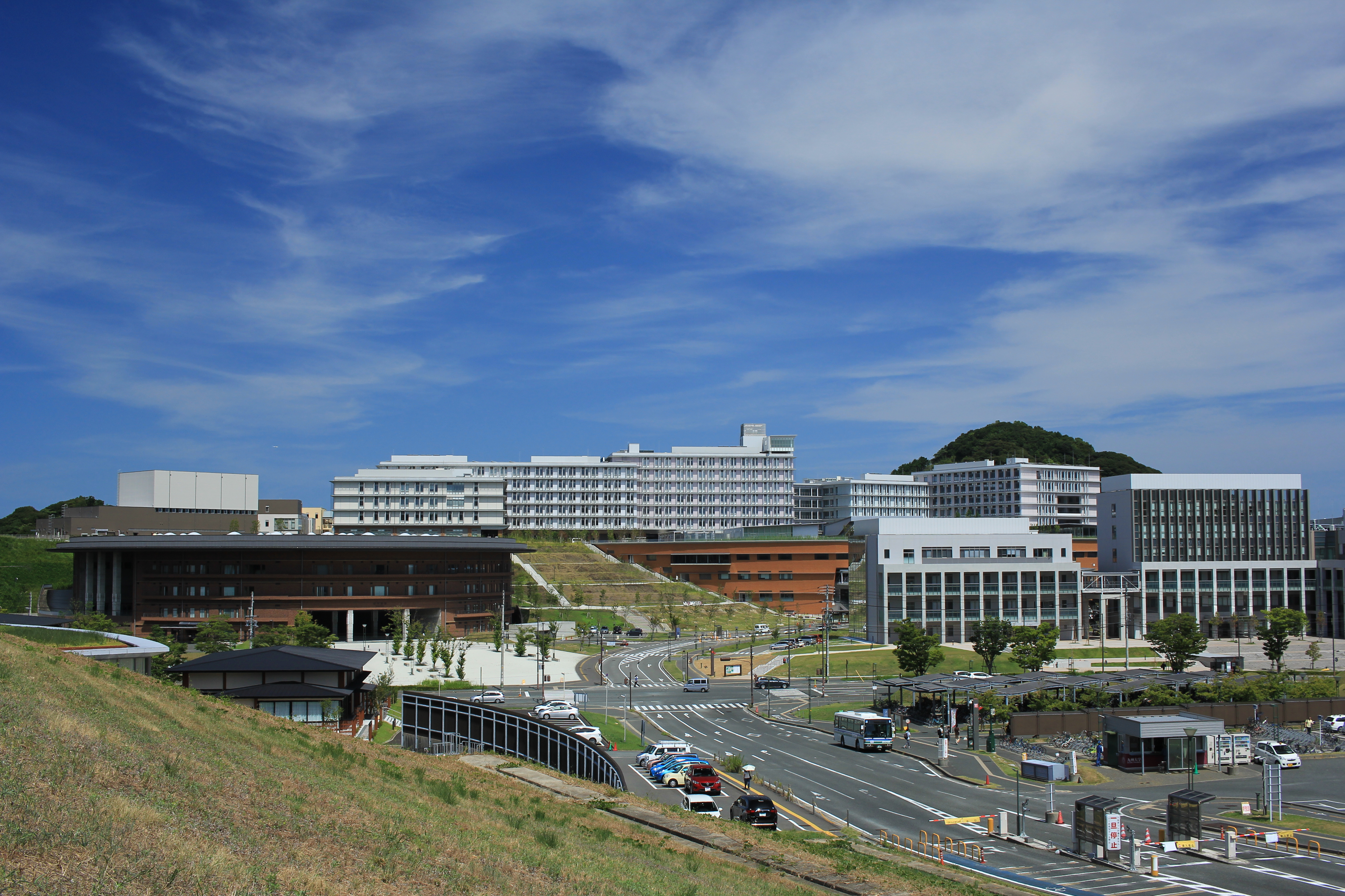 Kyushu University Ito Campus Center Zone and East Zone Canon EOS 60D